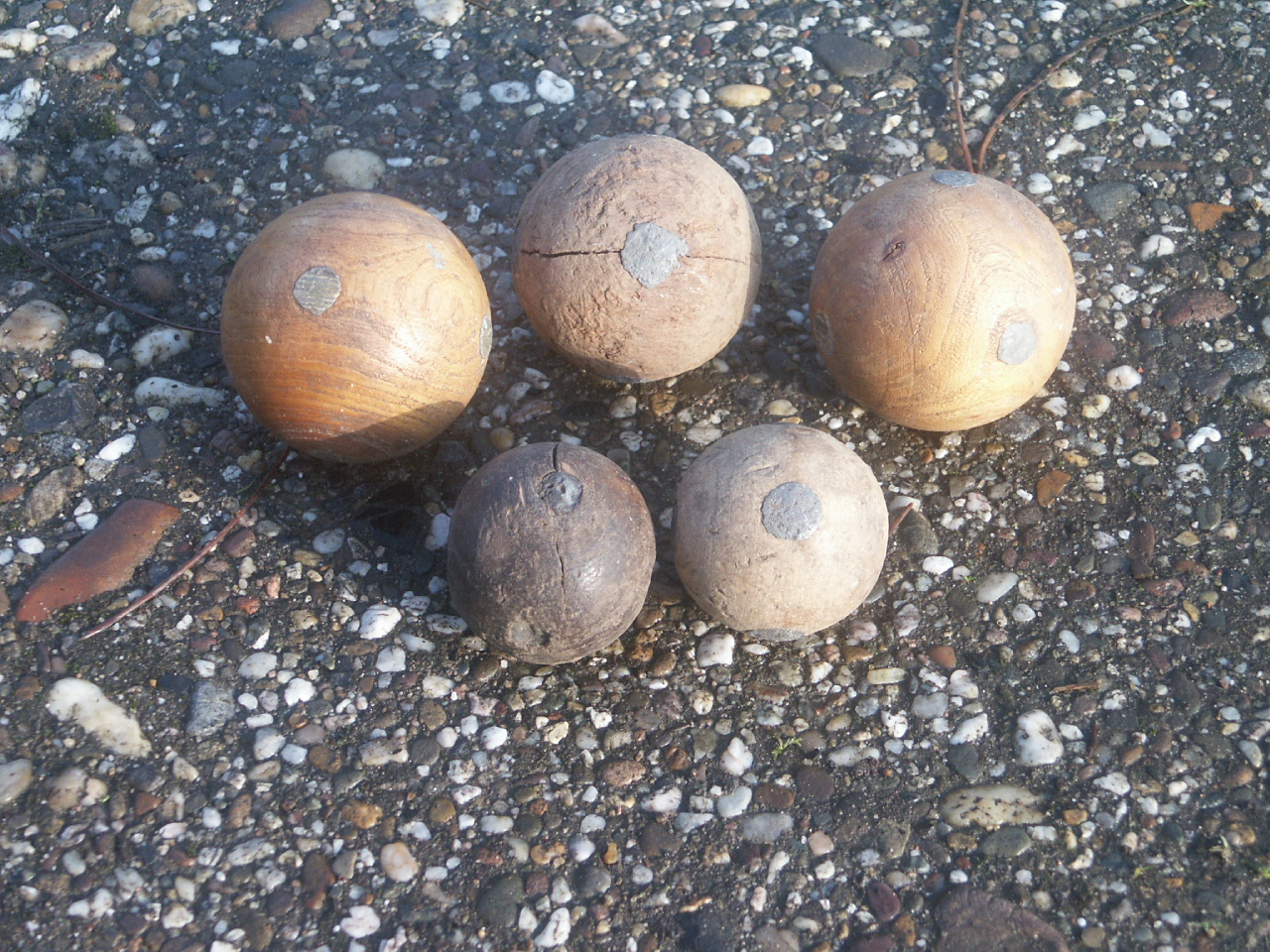 New and used bullets as used in street bowling (klootschieten) in the eastern provinces of the Netherlands. Lead filled wooden balls.